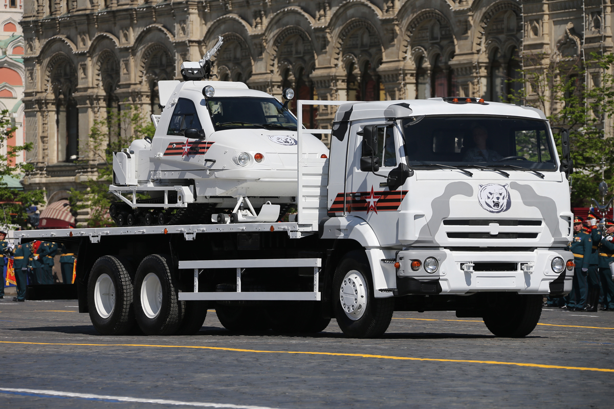 TTM-1901-40.